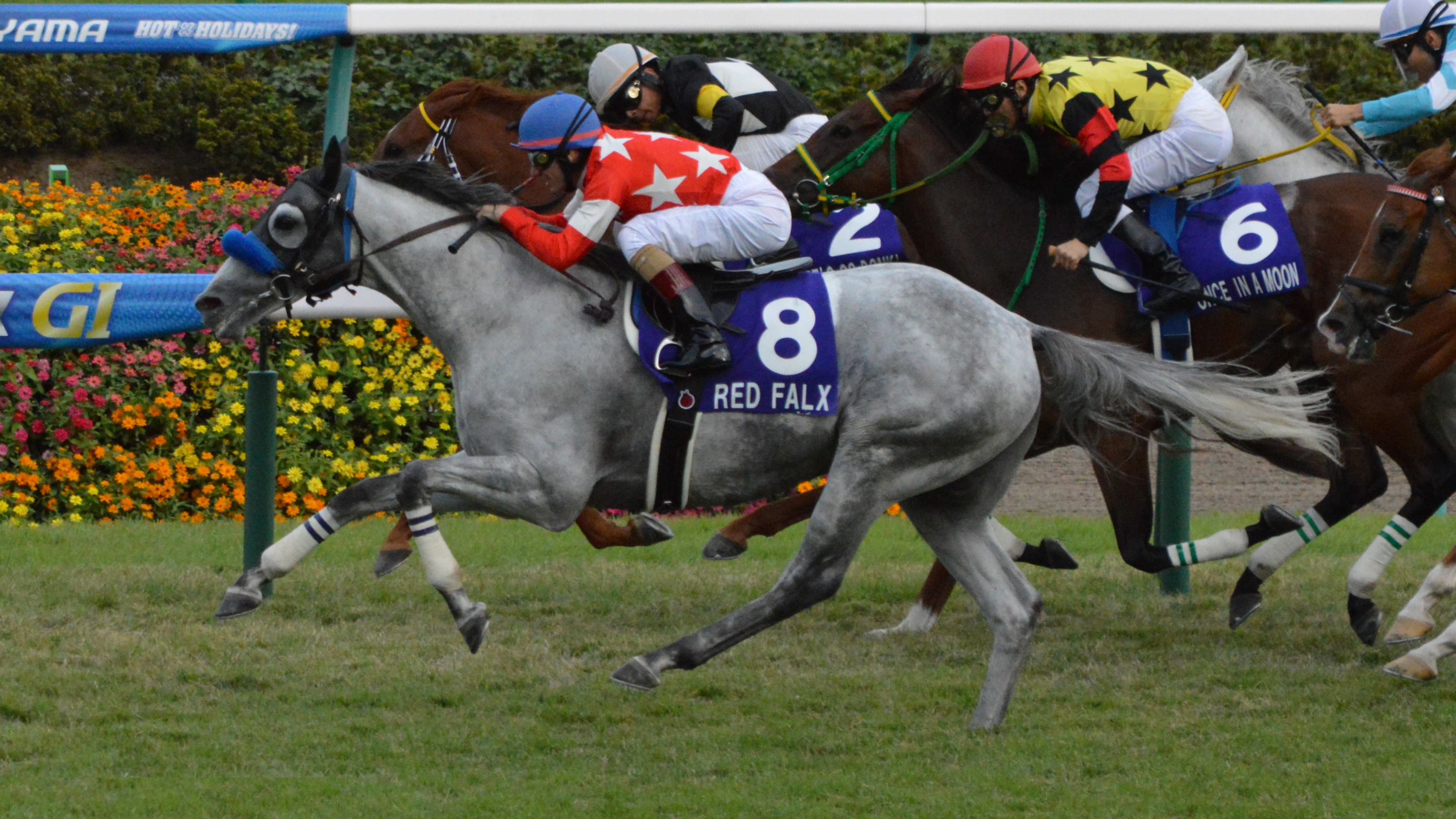 Japanese race horse Red Falx at Nakayama racecourse. Nakayama (JPN) 1 Oct 2017Sprinters Stakes (Grade 1) (3yo+) (Turf) 6f Firm RankHorse NameOddsAgeWgtJockeyTrainer1stRed Falx (JPN)11/5FH69-0Mirco DemuroTomohito Ozeki2ndLet's Go Donki (JPN)98/10C38-9Yasunari IwataTomoyuki UmedaOthers are omitted. (16 horses entered in a race.)